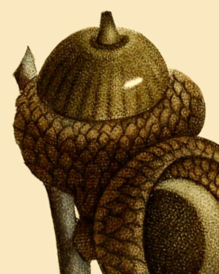 Acorn detail from Quercus laevis (Caption: Barrens Scrub Oak. Quercus catesbœi.)